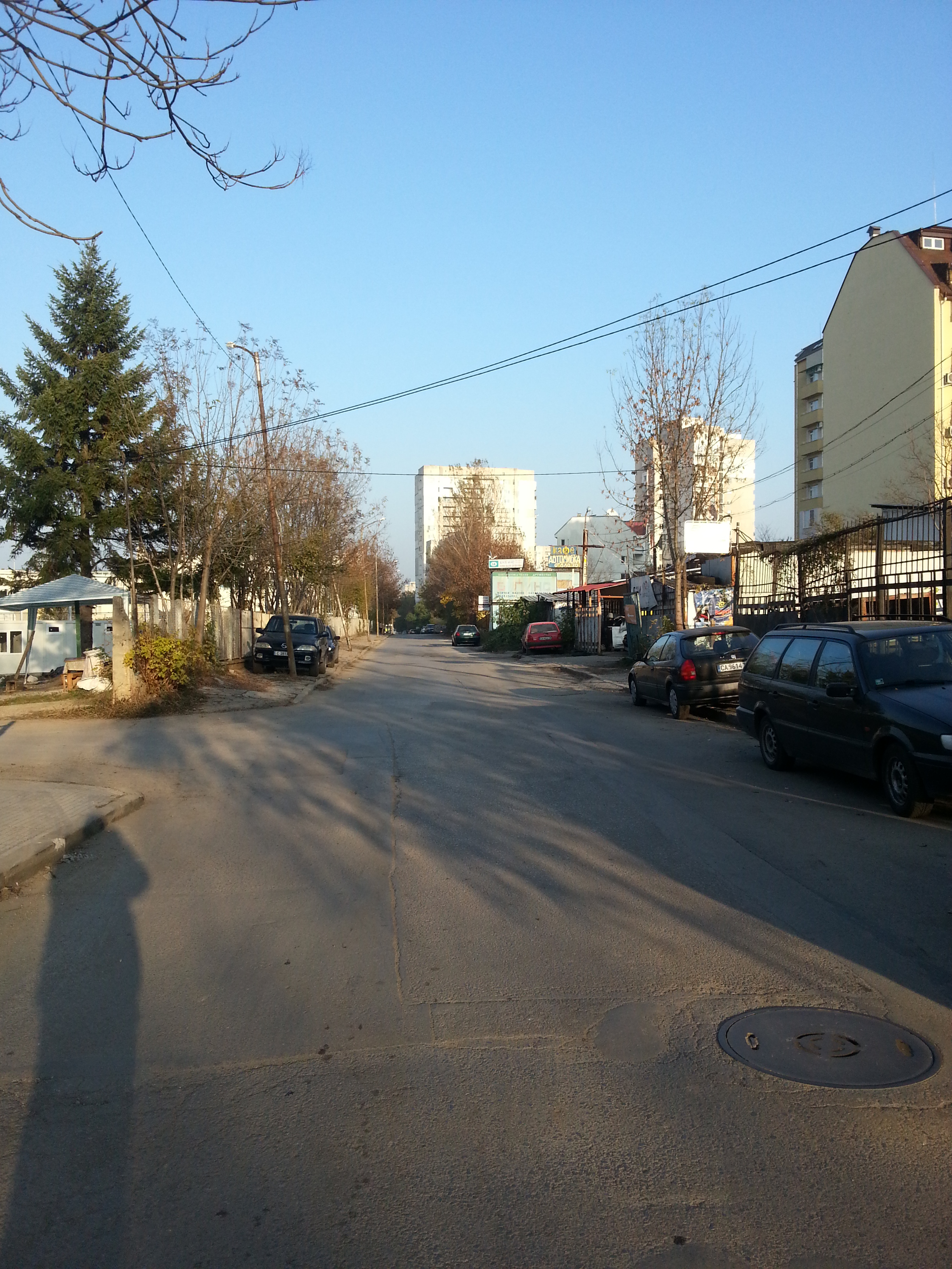 Pimen Zografski Street, Sofia